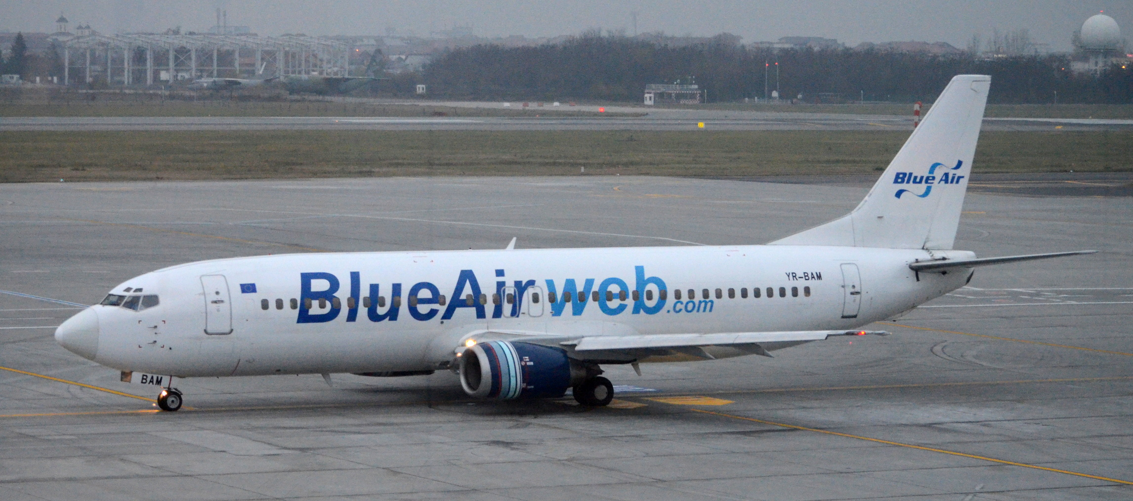 Boeing 737-4Q8 (Blue Air YR-BAM), at Bucharest Otopeni Airport